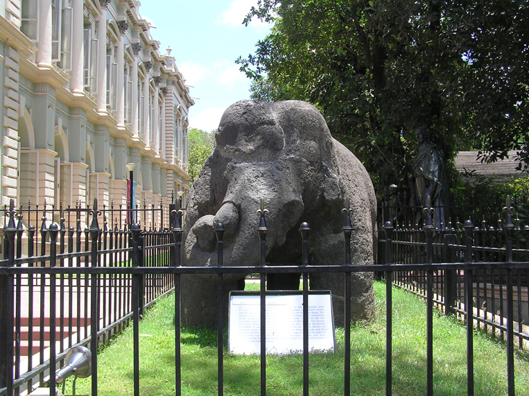 The elephant scuplture from Elephanta caves is currently installed at the Bhau Bhaji Lad Museum